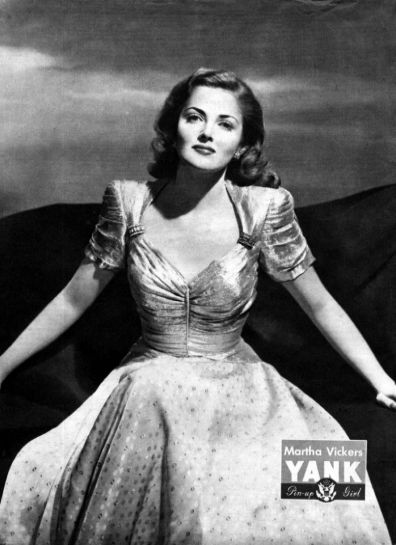 Pin-up photo of Martha Vickers for the May 11, 1945 issue of Yank, the Army Weekly, a weekly U.S. Army magazine fully staffed by enlisted men.